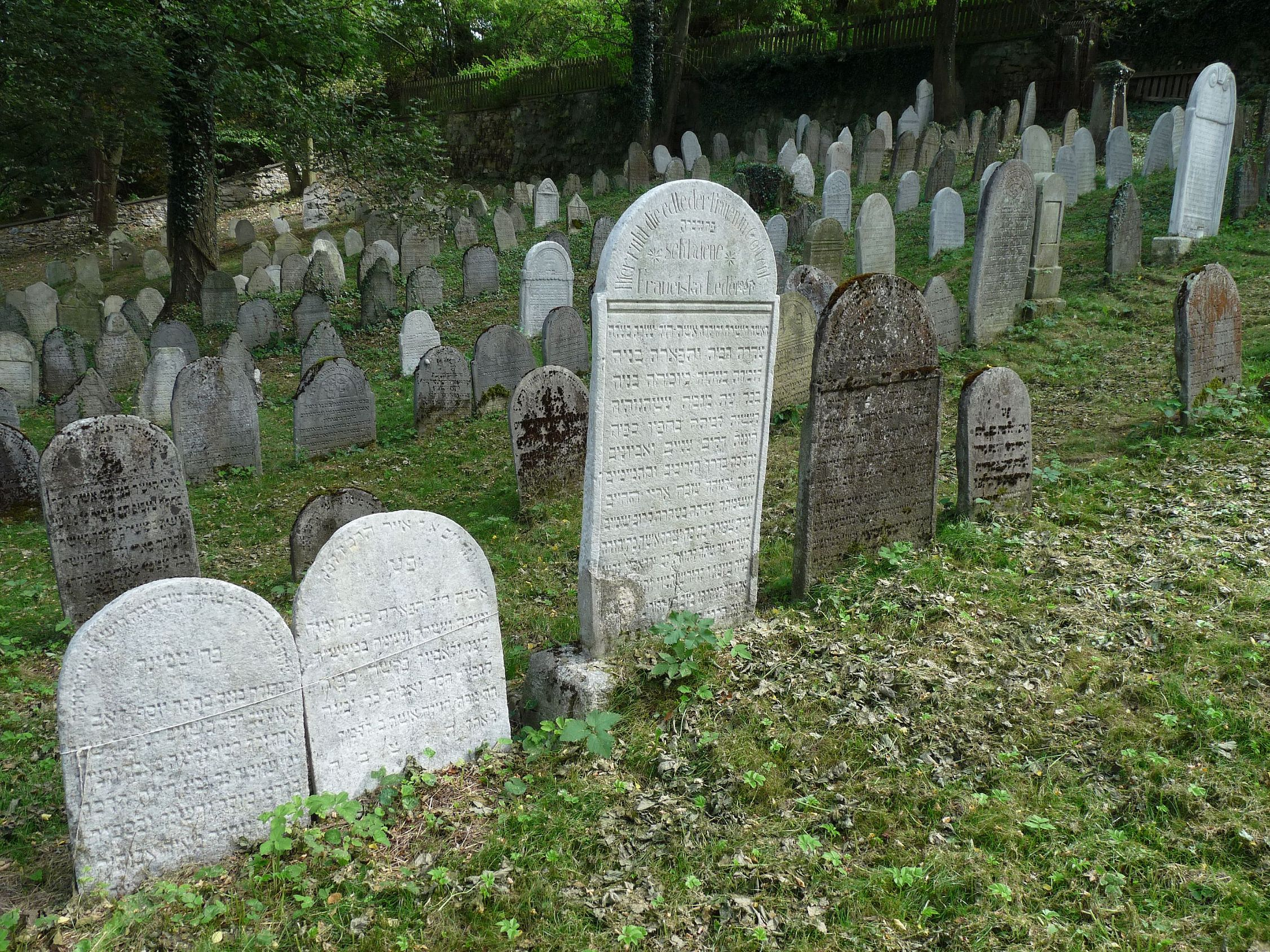 Gravestones in the Jewish cemetery in the municipality of Čkyně, Prachatice District, Czech Republic